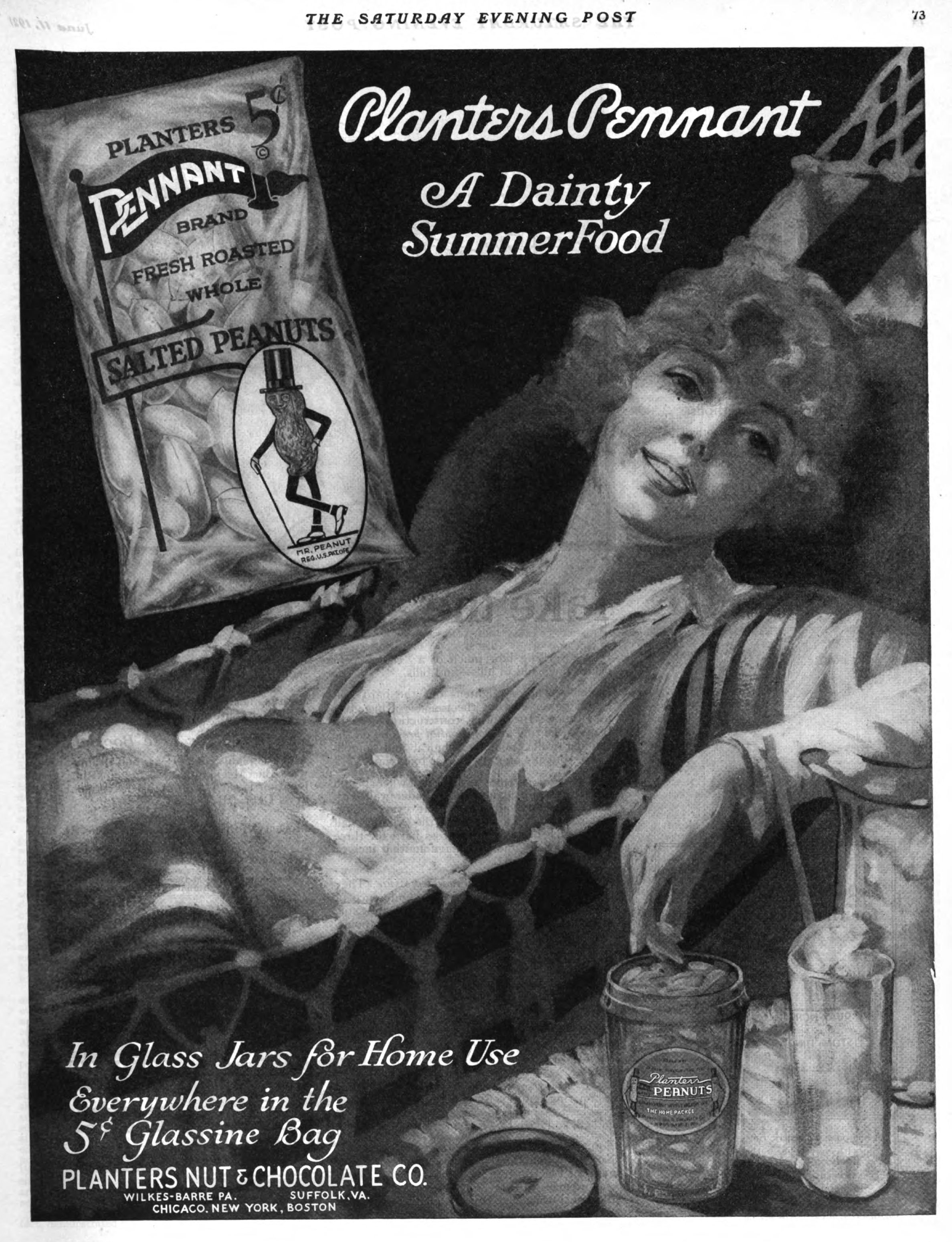 Planters Nut & Chocolate Company advertisement in the Saturday Evening Post, June 11, 1921, volume 193, issue 5, page 73.